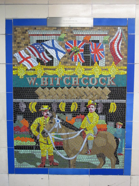 Leytonstone tube station - Hitchcock Gallery: Young Alfred by his father's shop